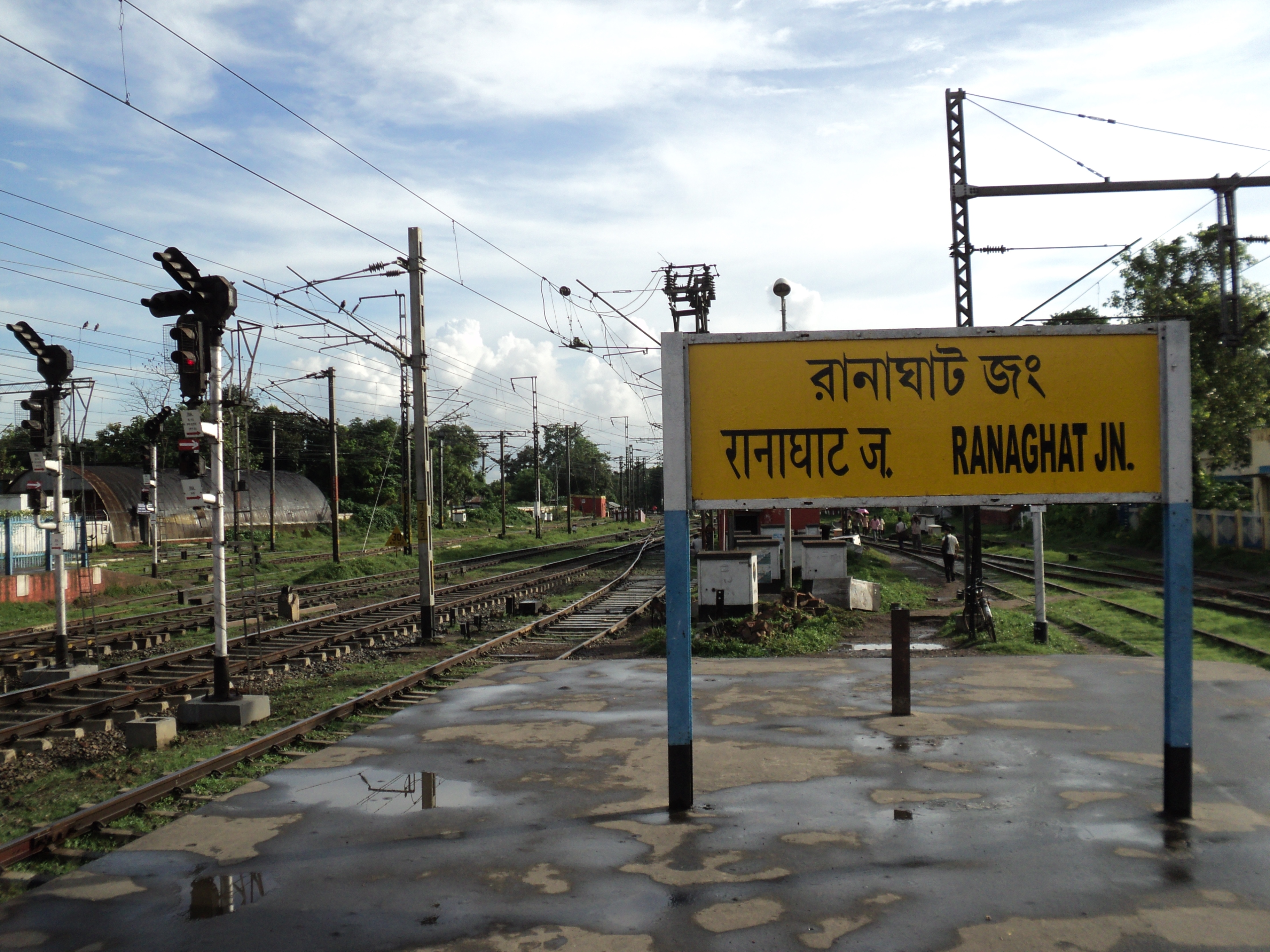 Ranaghat Junction Railway Station